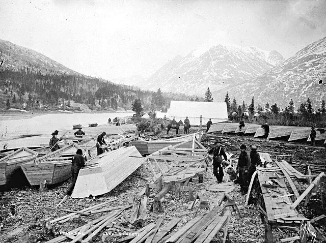 Boat building at Bennett Lake during Klondike Gold Rush (1897–98) ArchiviaNet (Library and Archives Canada) Descriptive record: Item part of: Eva Davies collection Boat building at Bennett Lake 1897-1898 / Bennett Lake, Yukon — 1 item — 153 x 204 mm Album II REFERENCE NUMBERS: ACCESSION: 1954-151 REPRODUCTION: C-004688 (copy negative number); CONSULTATION/REPRODUCTION: Graphics: photos Restrictions on access: Nil USE/REPRODUCTION: Restrictions on use/reproduction: Nil Copyright: Expired Credit: E.A. Hegg / Library and Archives Canada / C-004688 ADDITIONAL INFORMATION: (Recto:) Boat Building at Lake Bennett/E.A. Hegg (Inscription) p. 18, top A (Original item number) S9060 (Location number) CREATORS: Hegg, E.A., 1867-1948 SOURCE: DAPDCAP 86129